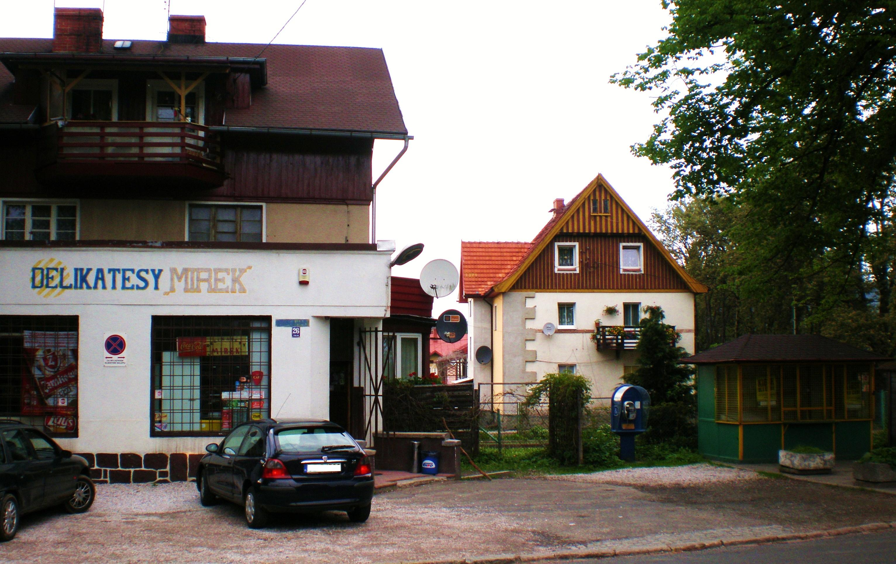 Janowice Wielkie - 1 Maja and Wojska Polskiego Street